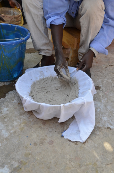 Préparation de la potasse ou cendres de bois